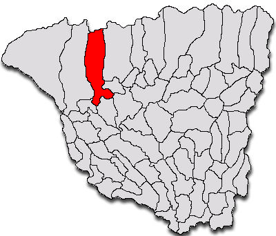 Locator map of the commune of Pestișani, Gorj County, Romania